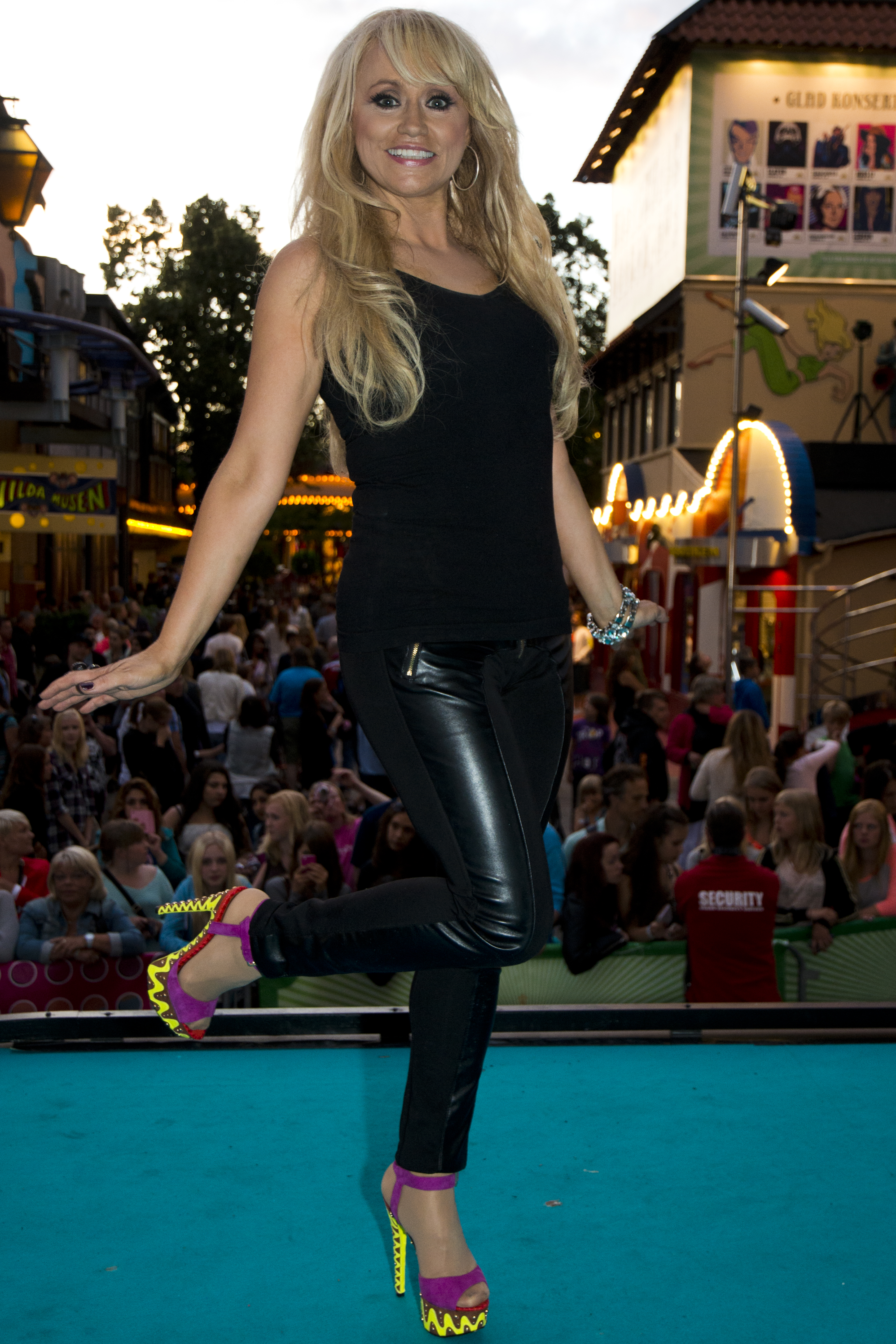 Nanne Grönvall guest at Sommarkrysset 2013 on Gröna Lund in Stockholm (Sweden)